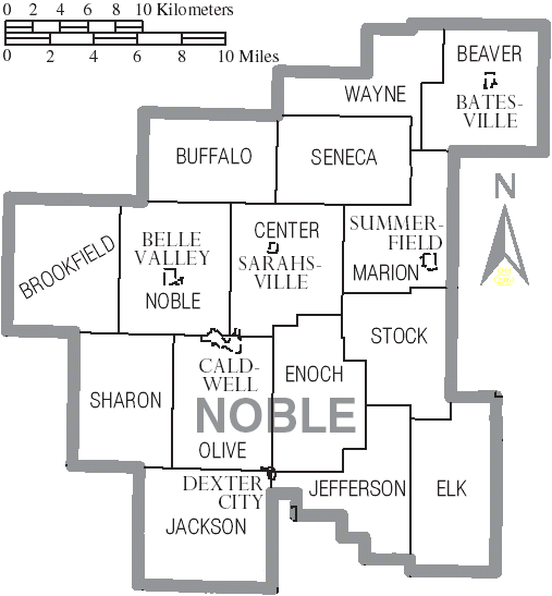 Map of Noble County, Ohio, United States with township and municipal boundaries